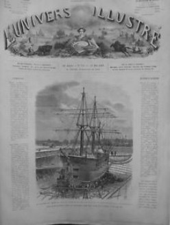 1869 Univers Illustre cover on the Boreal boat for the North Pole expedition of Gustave Lambert